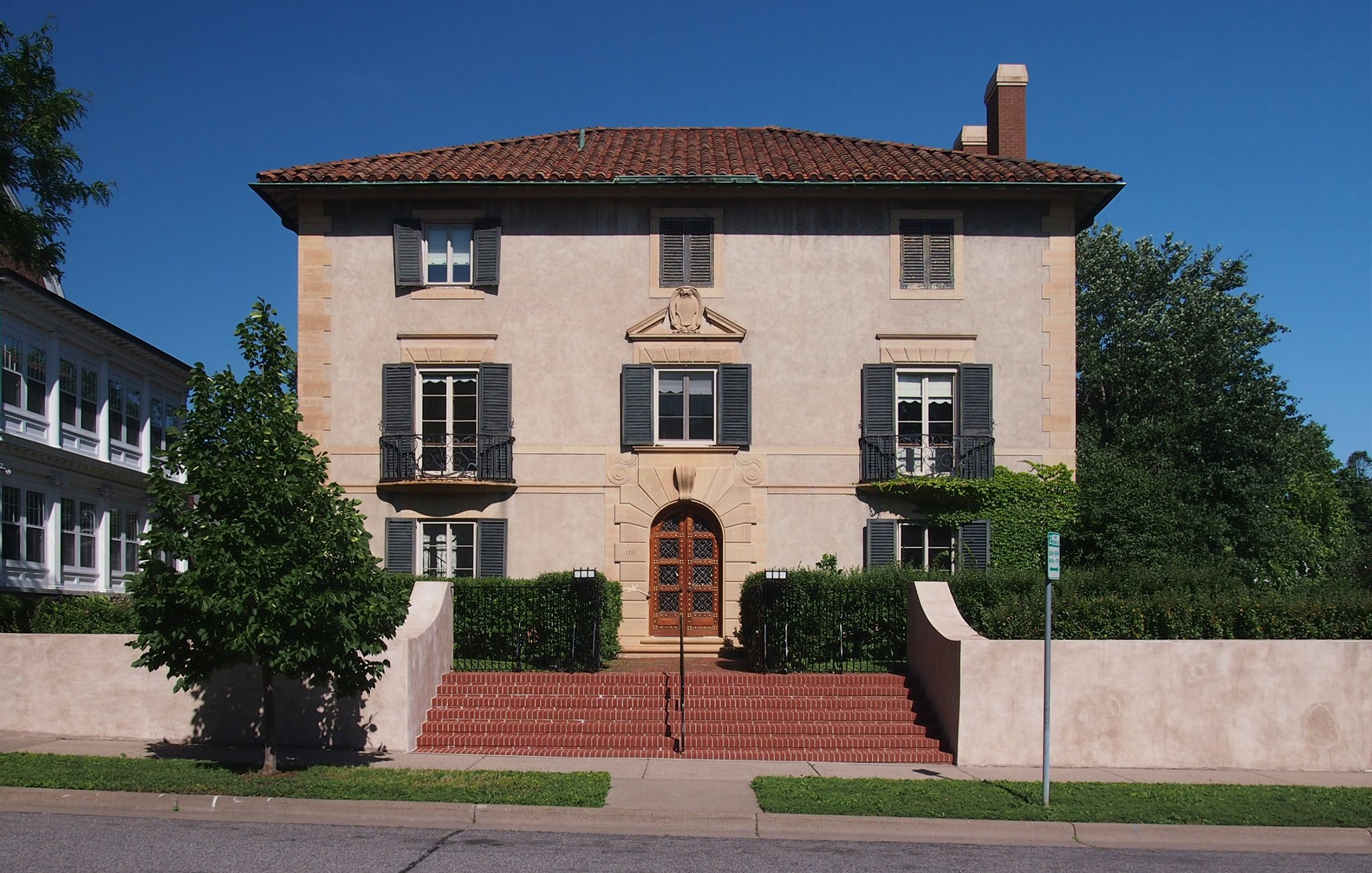 Elizabeth C. Quinlan House, 711 Emerson Ave S, Minneapolis, Minnesota, USA. Viewed from the west.